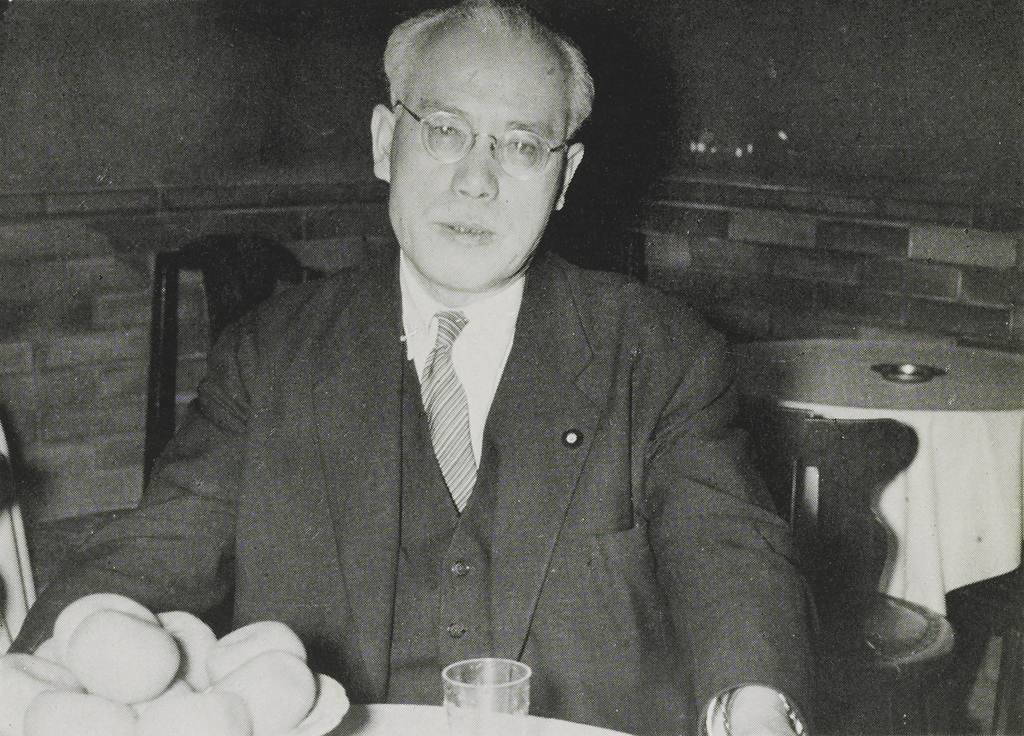 Portrait of Suzuki Yoshio (鈴木義男, 1894 – 1963)